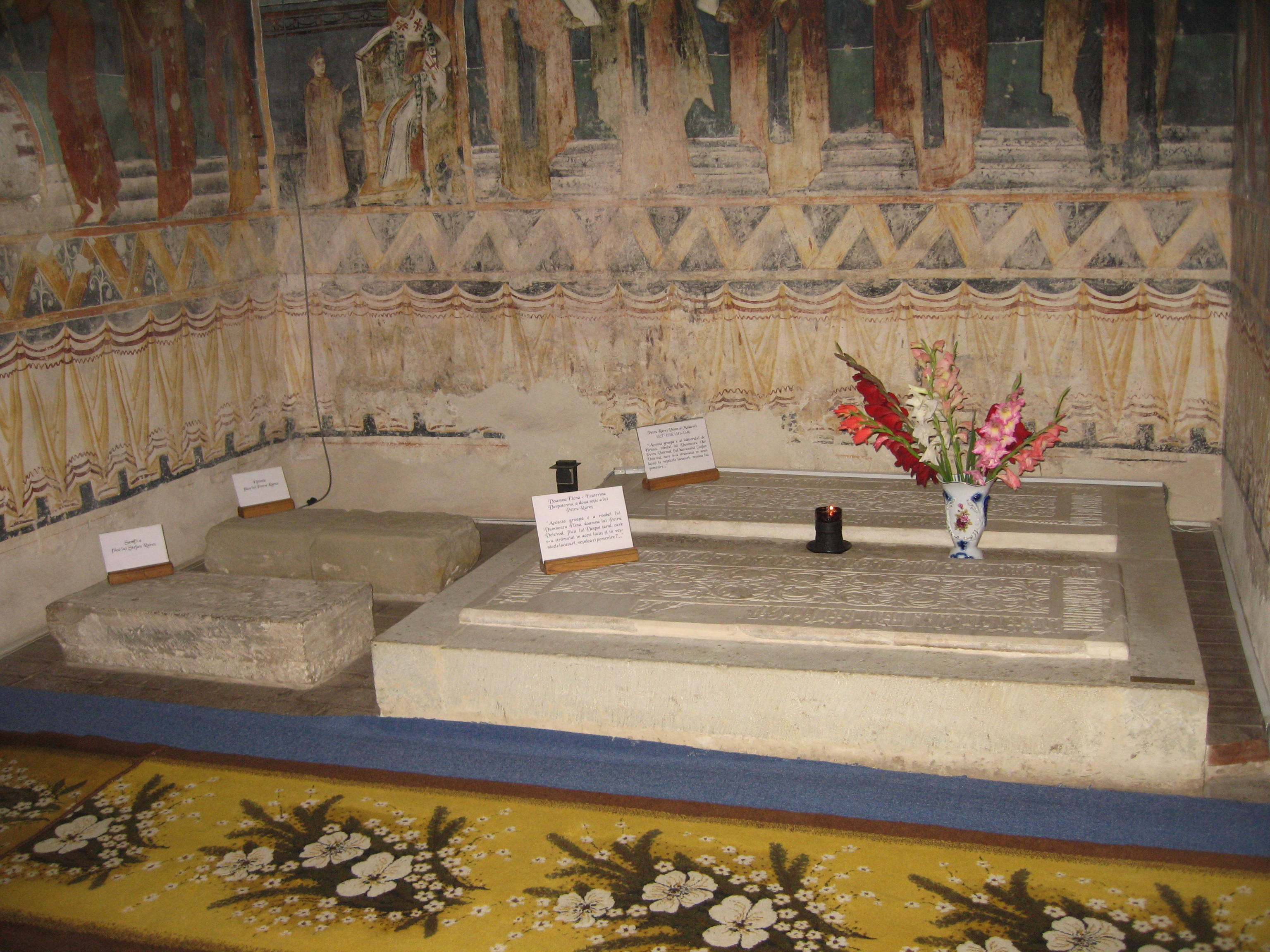 Probota Monastery